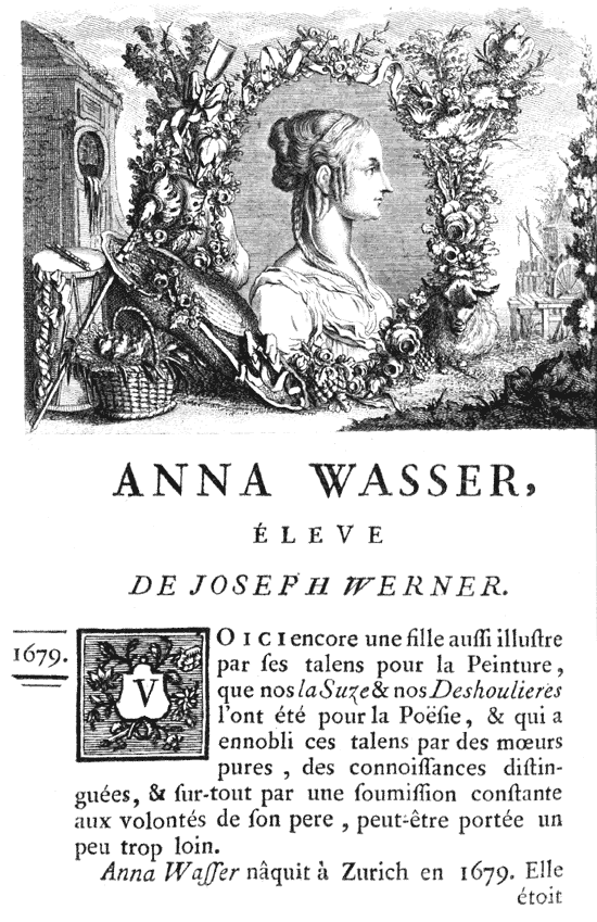 Biography of Anna Wasser with engraved portrait featured on page 202 of "Tome Quatrieme" of Jean-Baptiste Descamps' "La Vie des Peintres Flamands", 4 volumes (I 1753, II 1754, III, 1760, IV 1764)